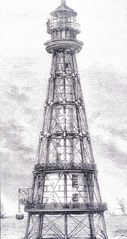 Light-house at Trinity Shoal, Gulf of Mexico